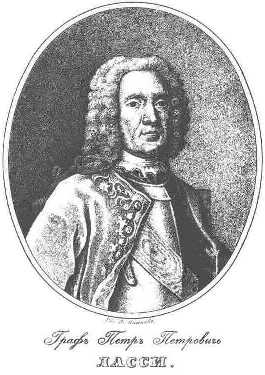 Peter Lacy, portrait from a 19th-century Russian book